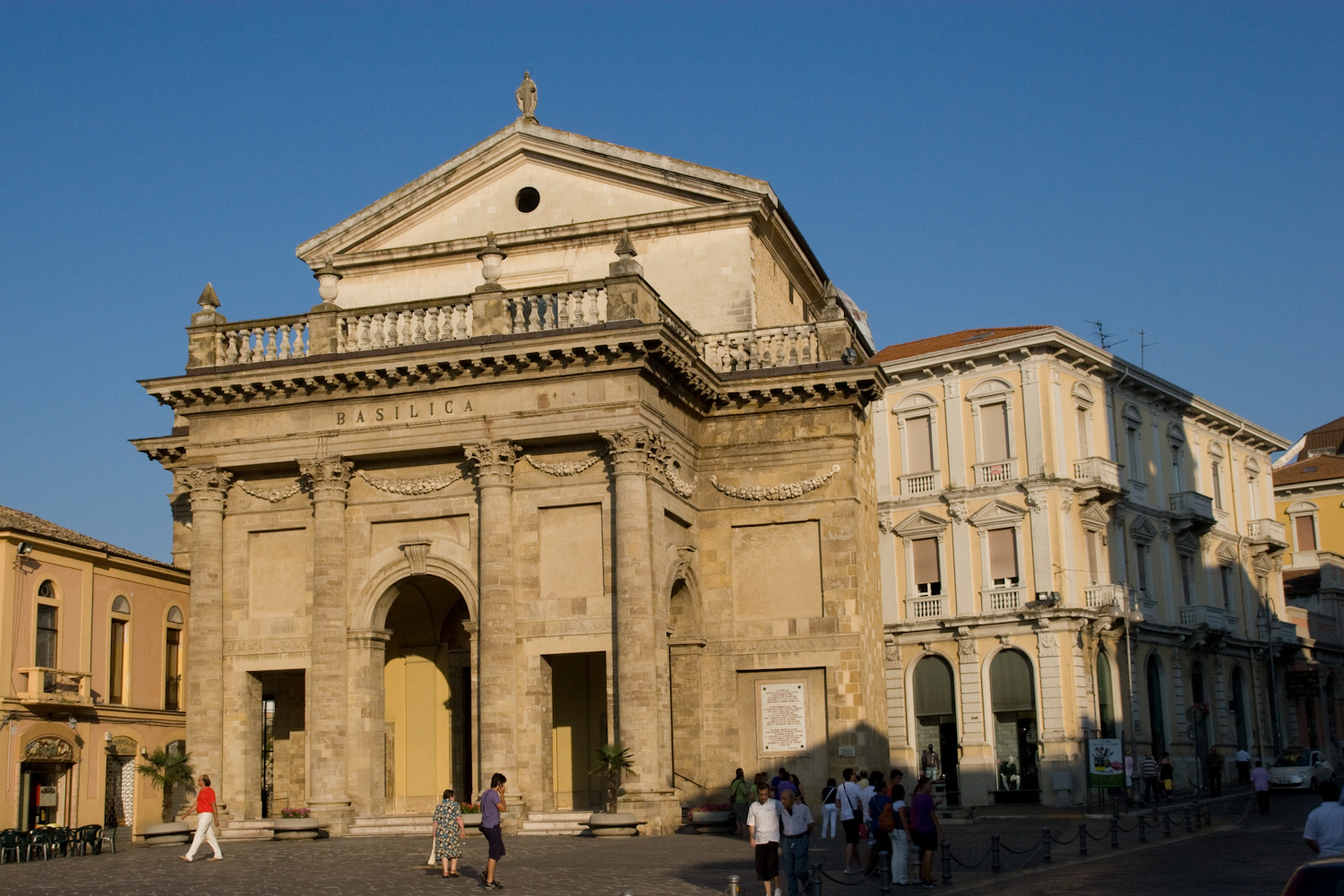 Lanciano Cathedral